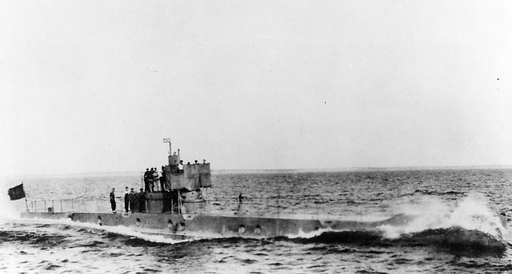 NH-81352 USS L-5 underway (cropped)